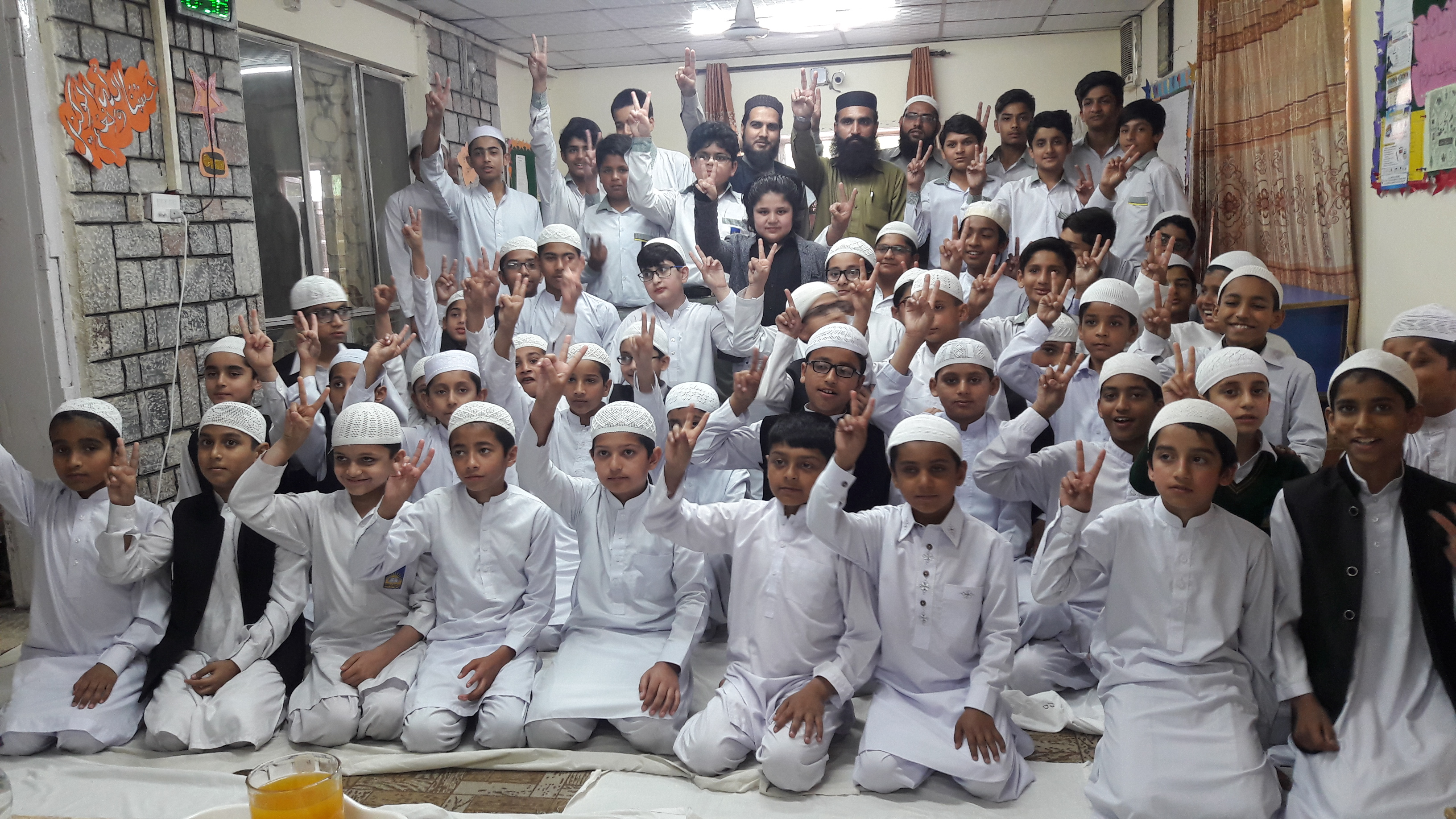 آٹھ سالہ زیدان ٹوبےکو فری پاکستان مہم کے دوران طلباء کے ساتھ